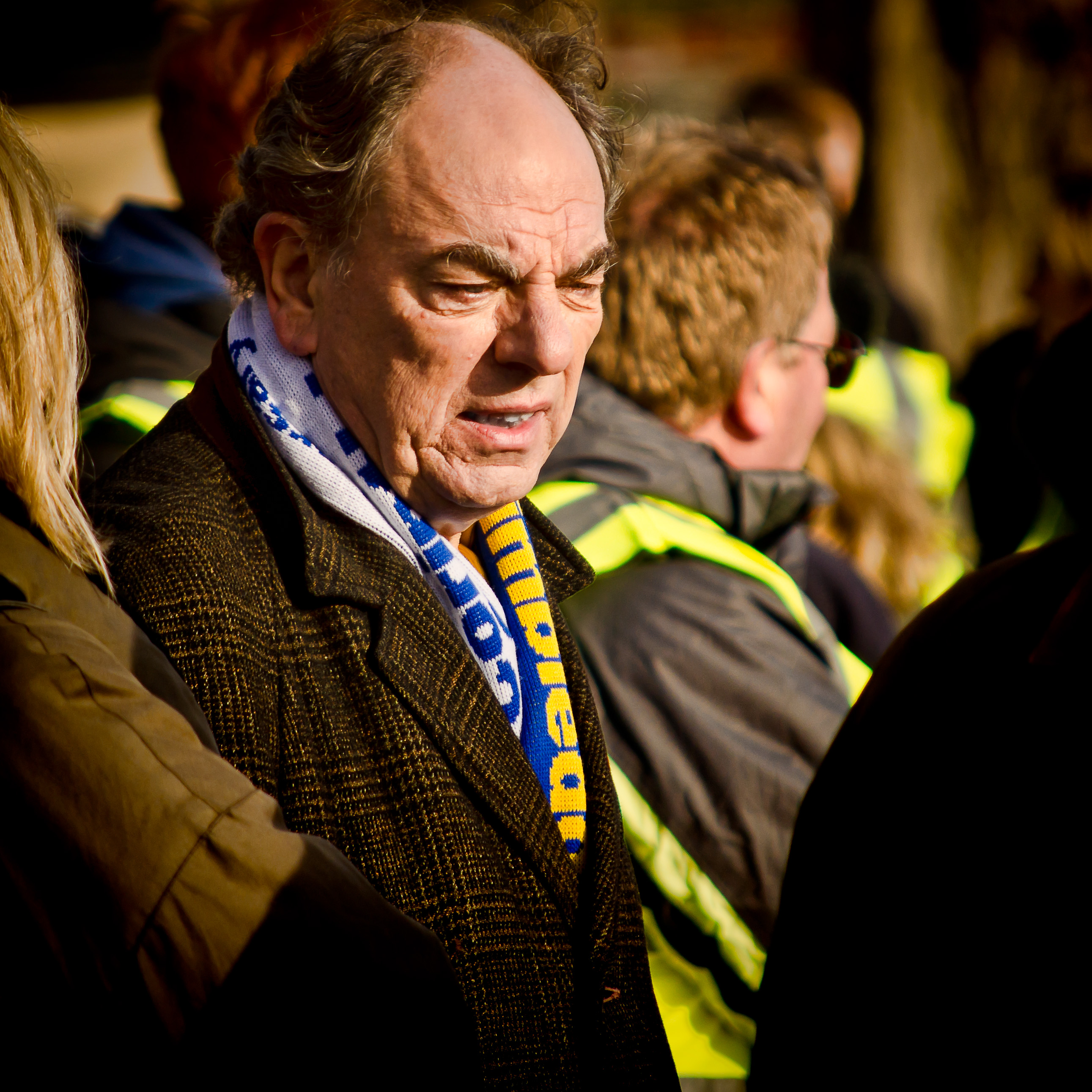 Alun Armstrong, English actor, filming New Tricks on location in St James's Park.